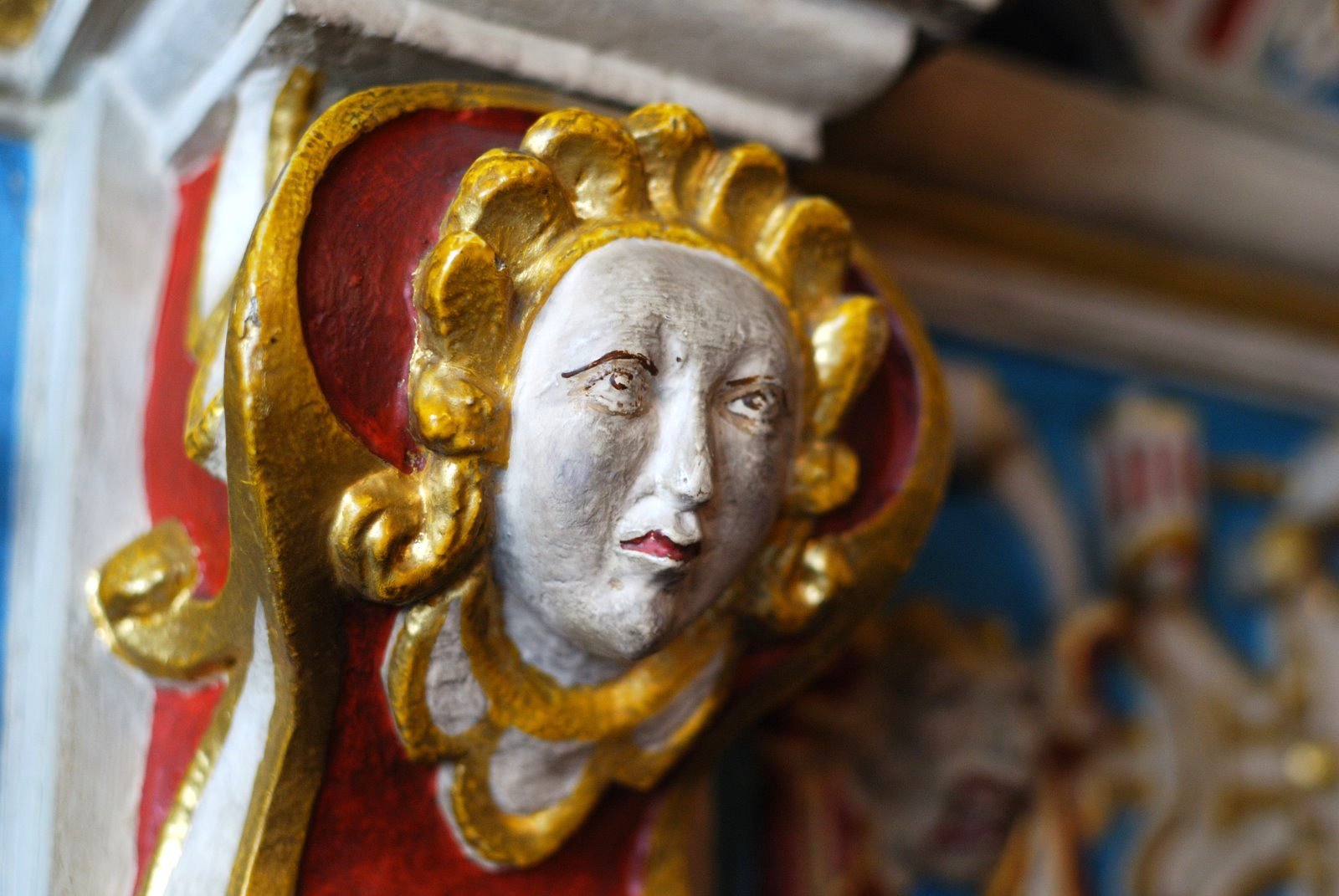 A painted angel on the ornate fireplace inside the Mayor's Parlour at Leicester Guildhall